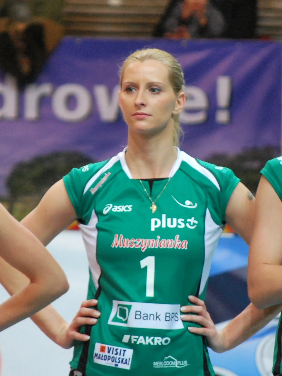 Anna Werblińska, polish volleyball player